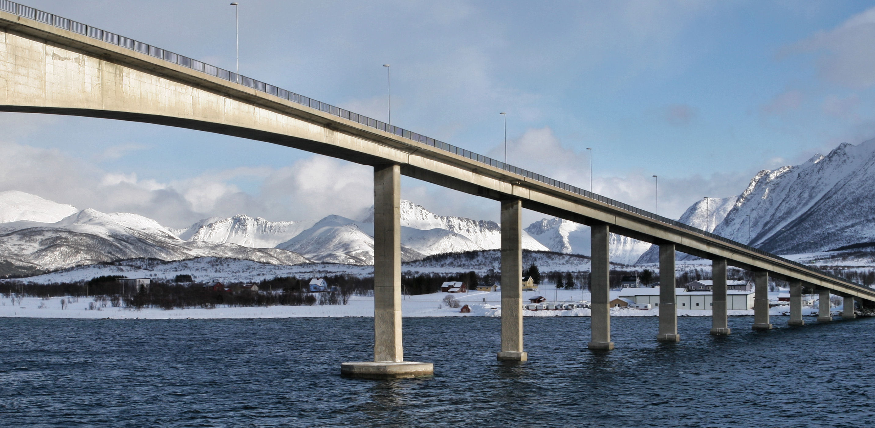 Bridge (961 m) between Hinnøya (background) and Langøya, near Sortland. Winter 2006-2007. *